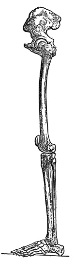 Human skeleton showing plantigrade habit Scanned by Daniel P. B. Smith in 2004 from the 1911 edition of the Encyclopedia Britannica. Cleaned up, legends removed. The original source is believed to be in the public domain because it was published in 1911. If my changes are deemed to have created a derivative work, then I release this derivative work into the public domain.